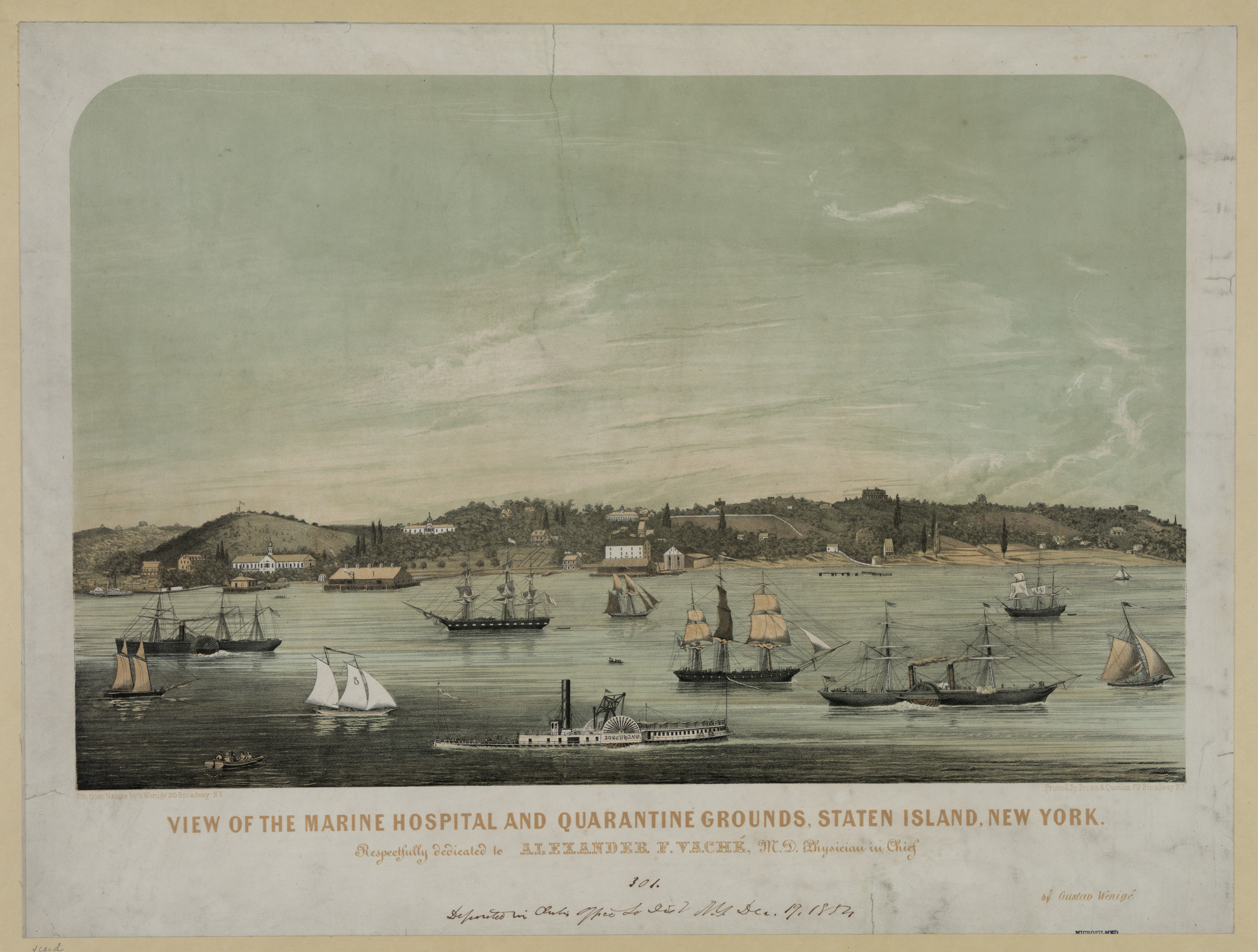 Title: View of the marine hospital and quarantine grounds, Staten Island, New York Physical description: 1 print. Notes: This record contains unverified data from PGA shelflist card.; Associated name on shelflist card: Brown & Quinlan.